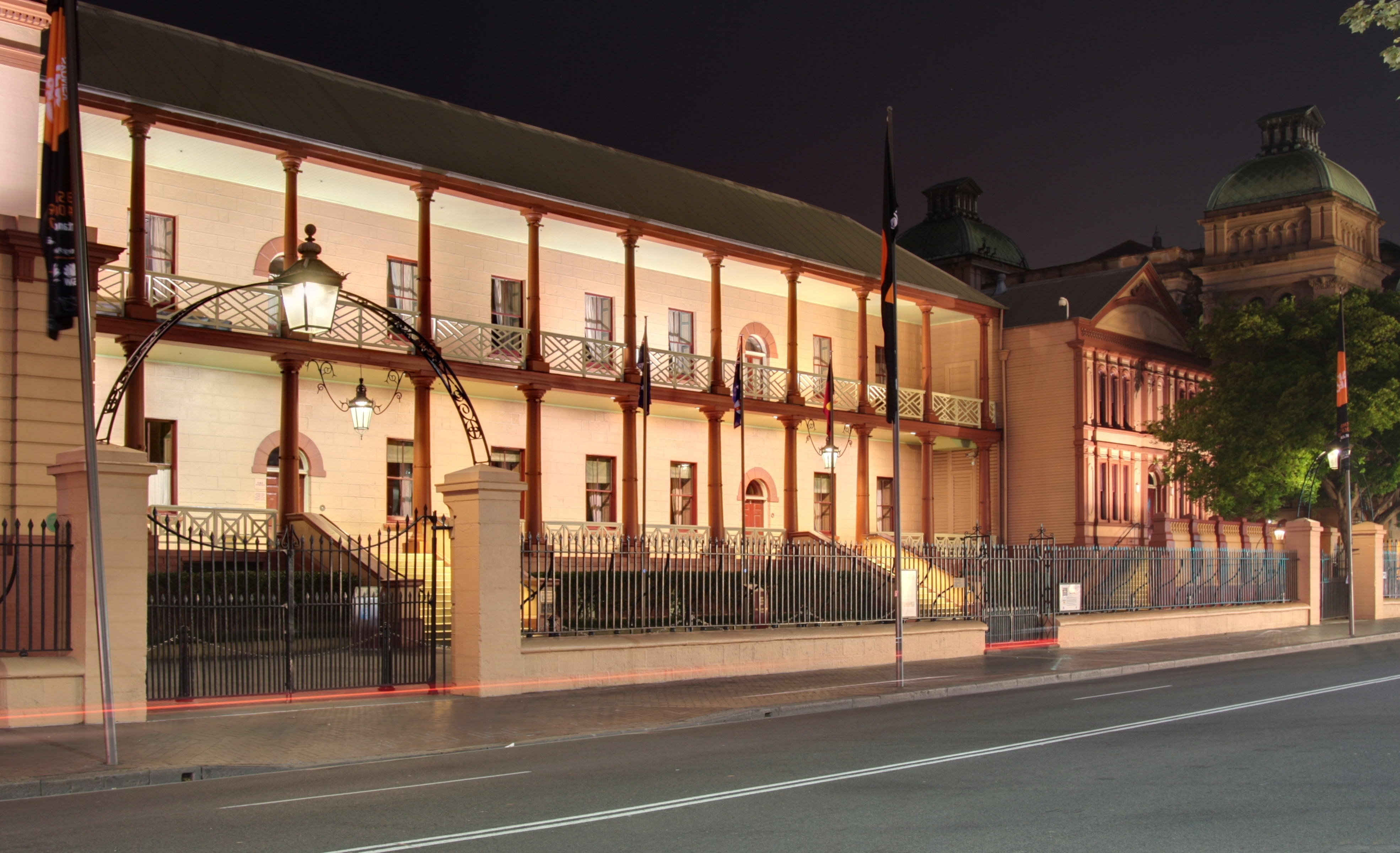 Parliament House in Sydney